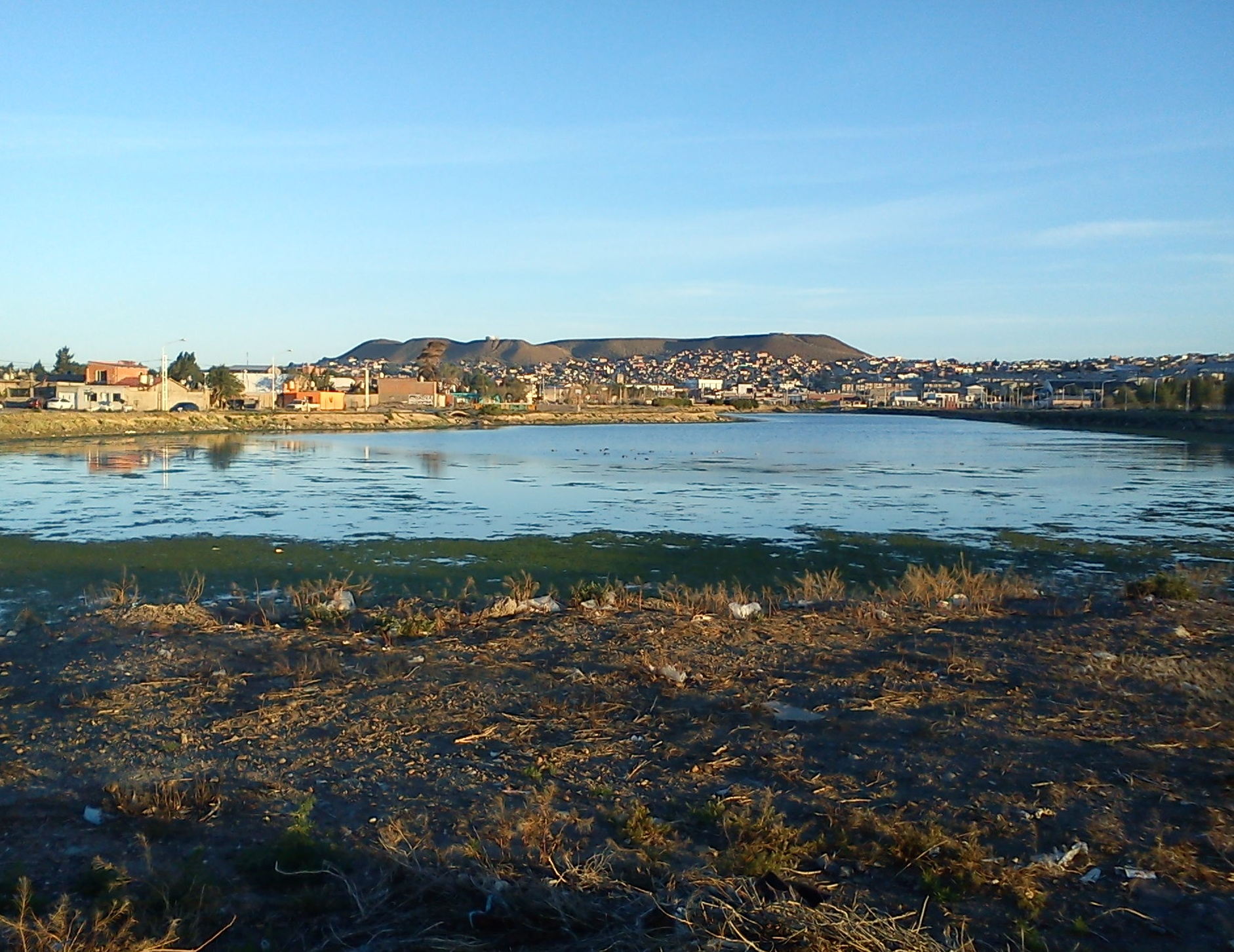 Foto mía, del cerro sur